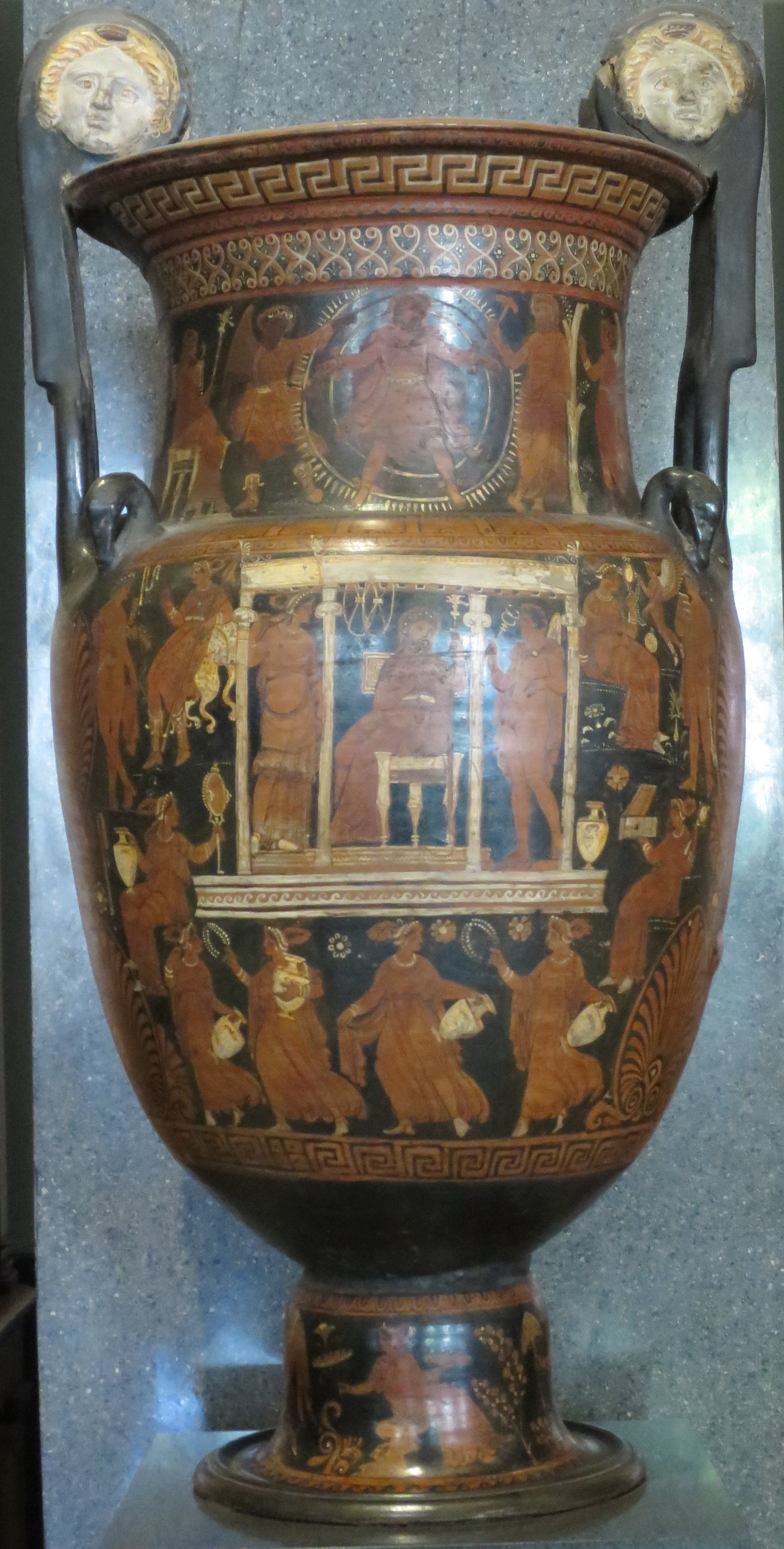 Red figure volute krater with scene of the Underworld with Hades, Persephone and Hermes in the palace and the Danaides below, 325-300 BCE, follower of the Baltimore Painter, southern Italy, The Hermitage